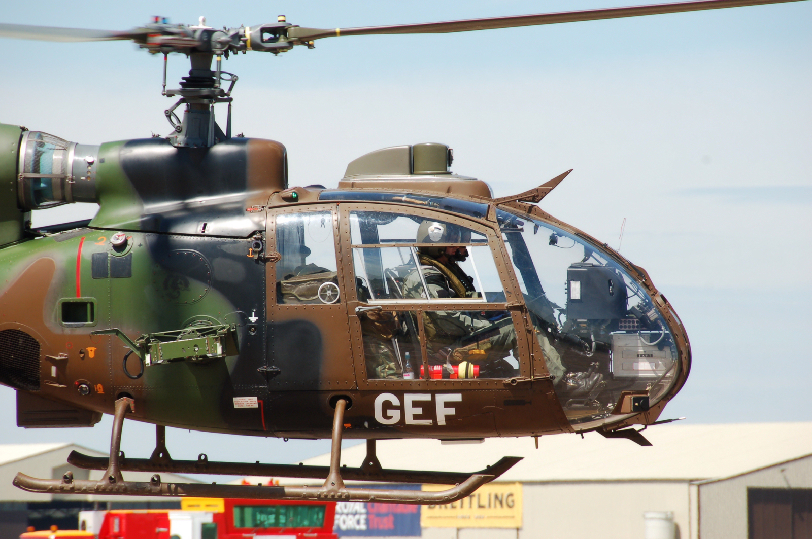 French Army (Armee de Terre) Aerospatiale AS 342L1 Gazelle (military code GEF) hover taxis to the runway at the 2010 Air Tattoo, Fairford, Gloucestershire, England.